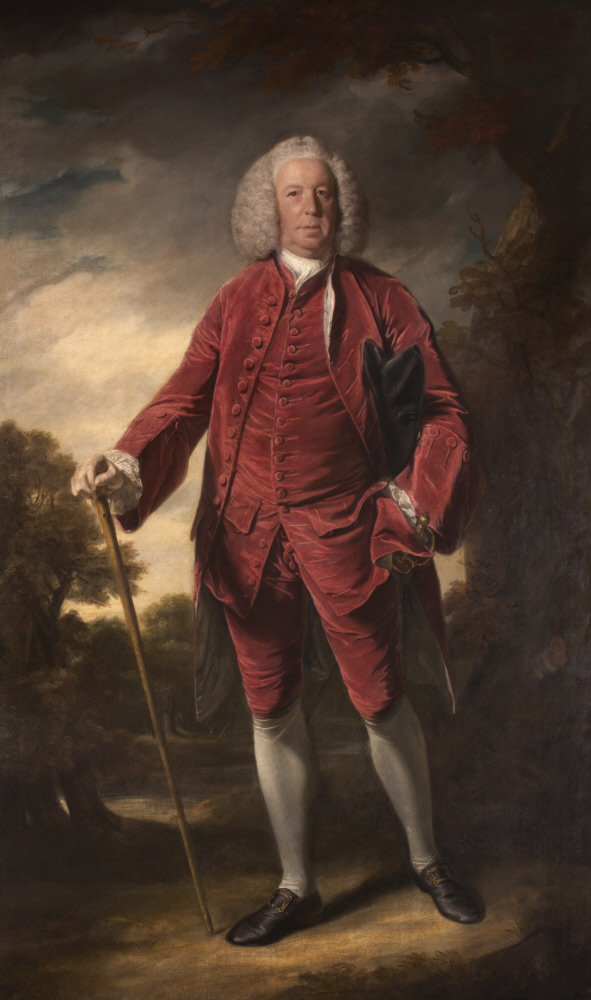 Oil painting on canvas, Thomas Fane, 8th Earl of Westmorland (1700–1771). A full-length portrait in a landscape, wearing red coat and breeches. In 1761 Joshua Reynolds painted his full length portrait entitled Mr Fane. Reynolds was paid 80 guineas for the work which depicted the powder-wigged subject walking through a wooded landscape wearing rose-coloured velvet attire. In May 1903 the portrait was sold to Martin Colnaghi for 2,100 guineas.